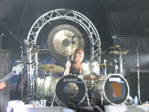 James Kottak live with scorpions